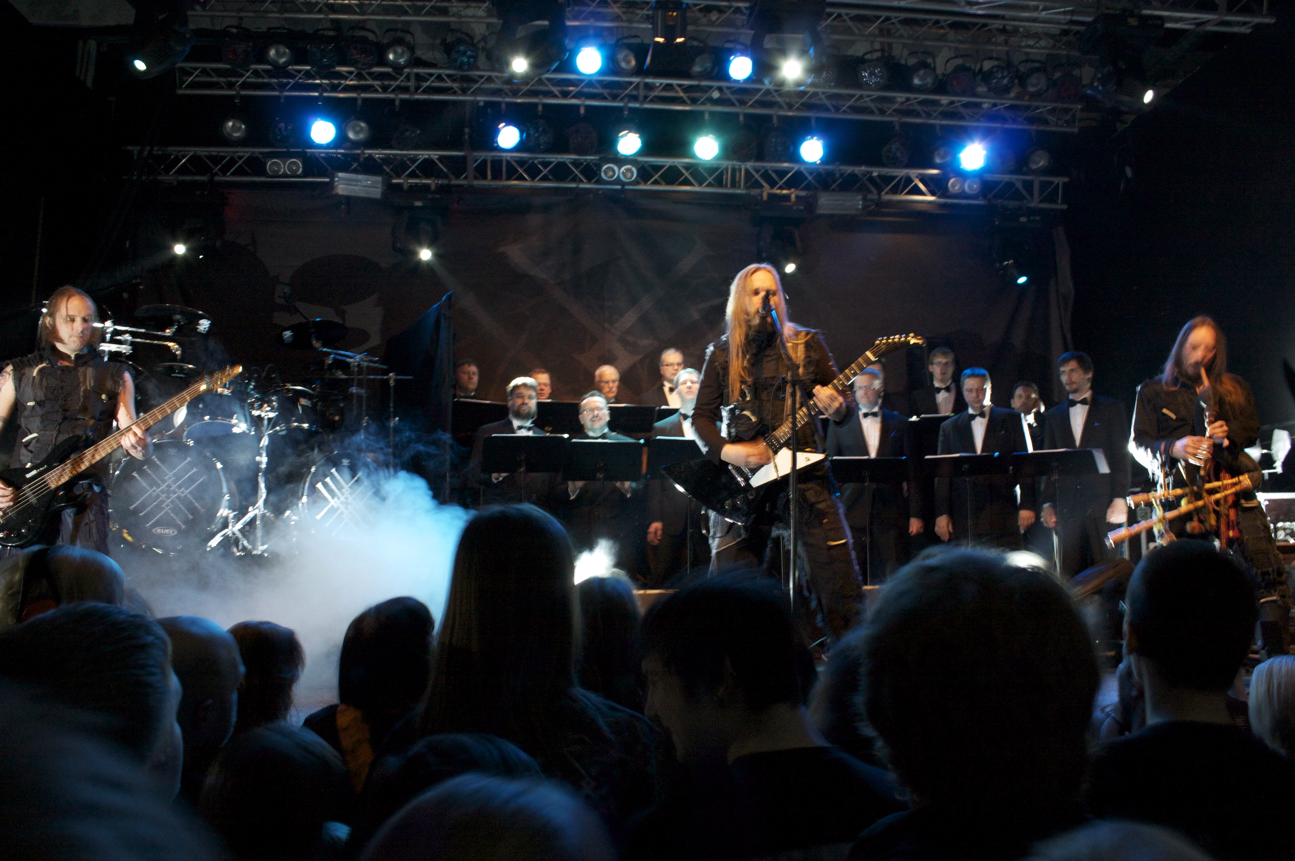 Metsatöll and the Estonian national male choir presenting their new album Äio in Rock Cafe, Tallinn, Estonia.